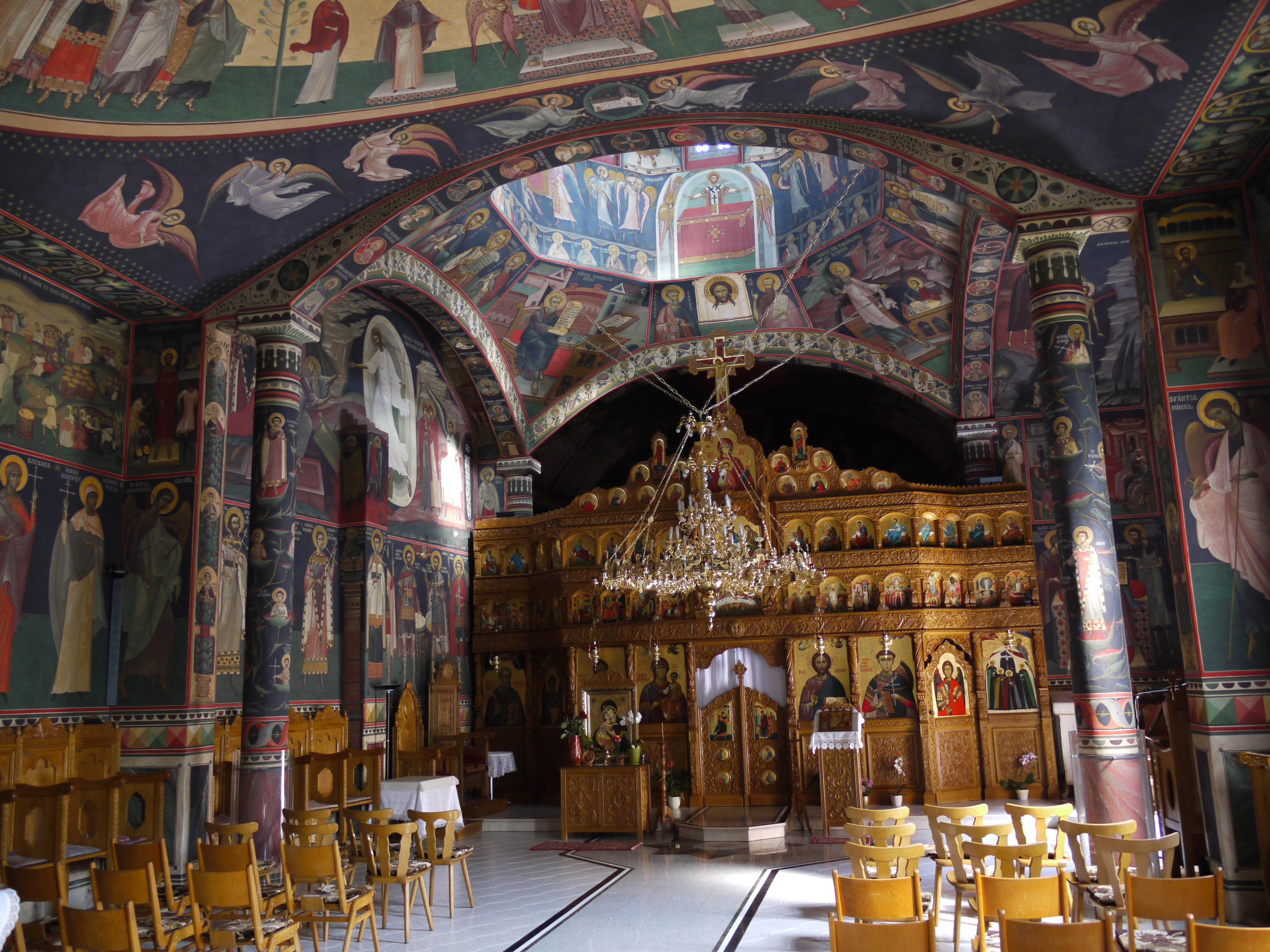 Inside of an Romanian Orthodox Church in Nuremberg